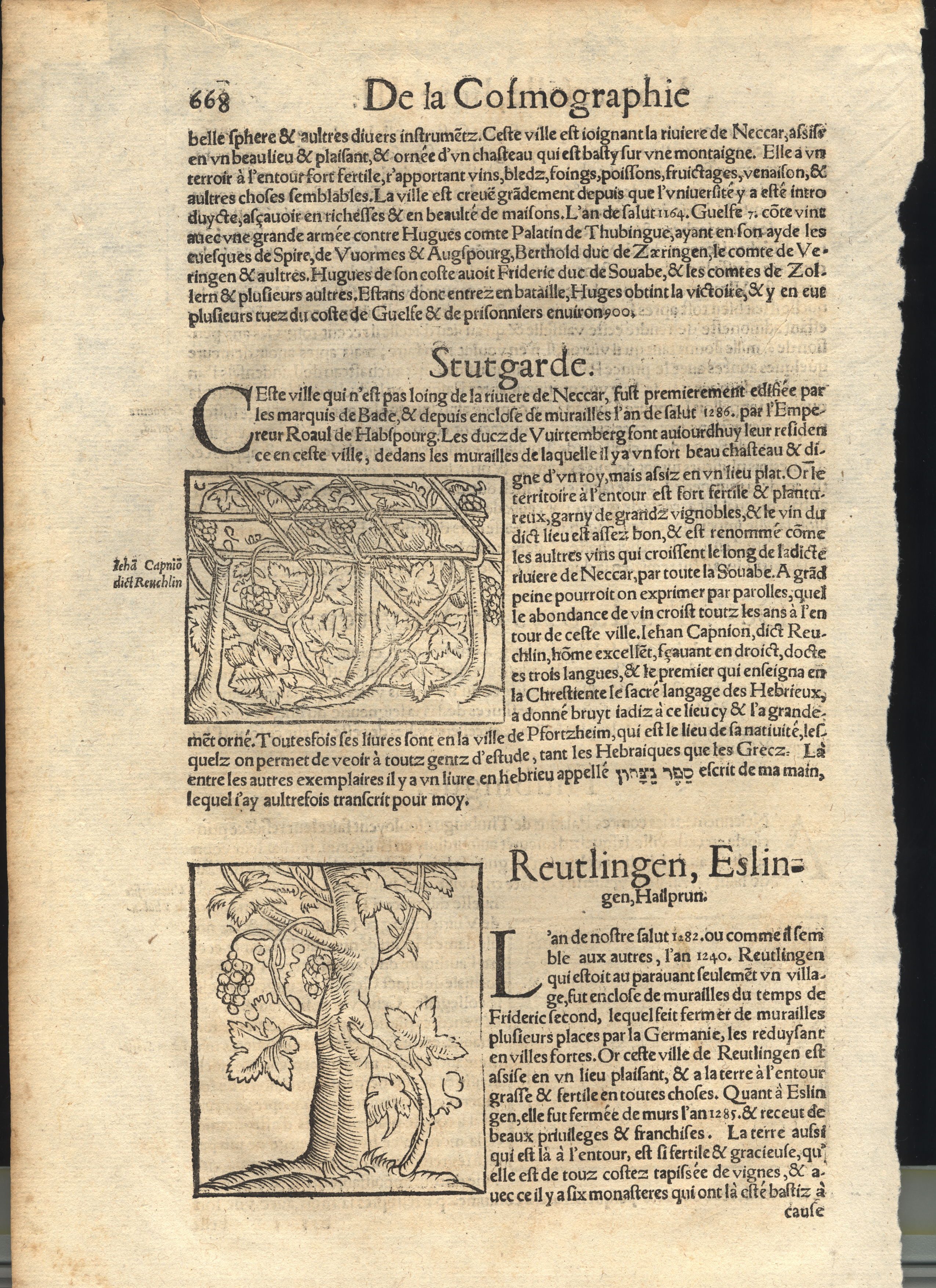 page 668 from François de Belleforest translation of Sebastian Münster Cosmographia Universalis. French edition published 1575.